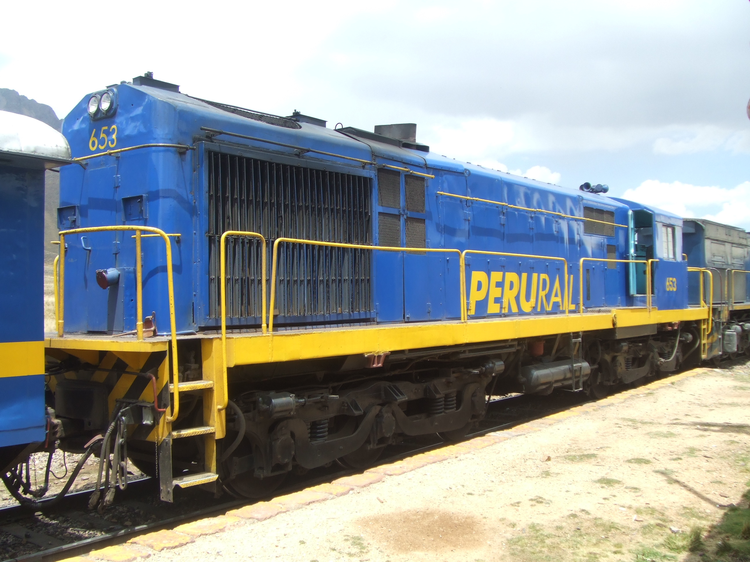 Peru Rail standard gauge ALCO/MLW 3,000 hp DL-560D Co-Co No.653, built 1974, on "The Andean" from Cuzco to Puno at La Raya, 10/07.